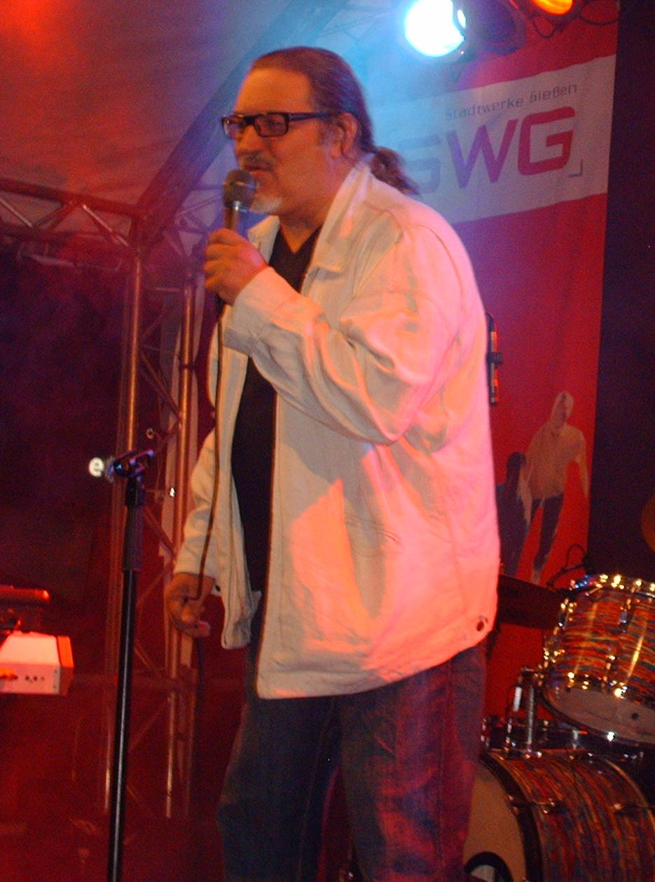 Edo Zanki and band, Gießen, Germany check usage